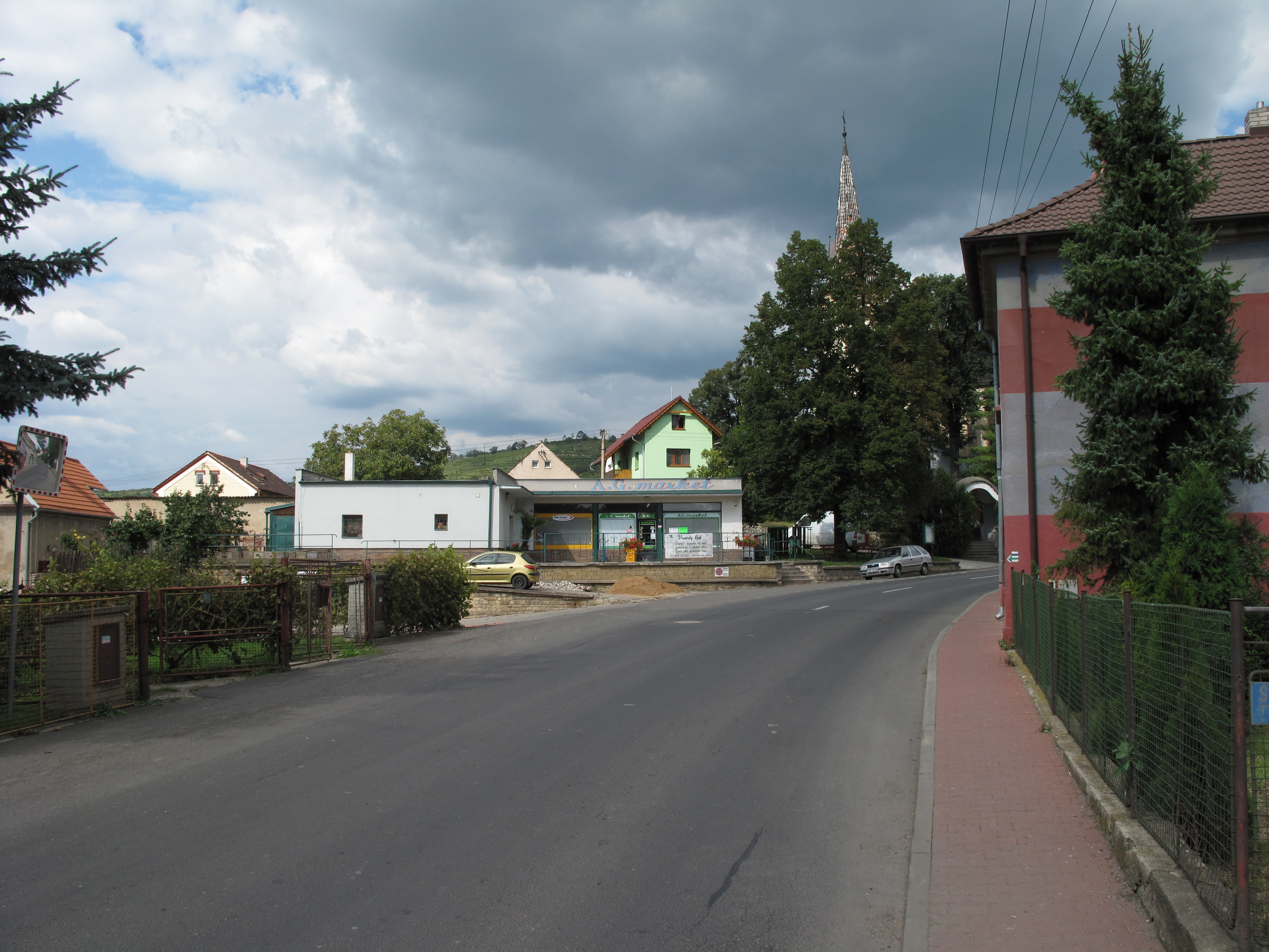 Supermarket in Velké Žernoseky village, Litoměřice District, Czech Republic.